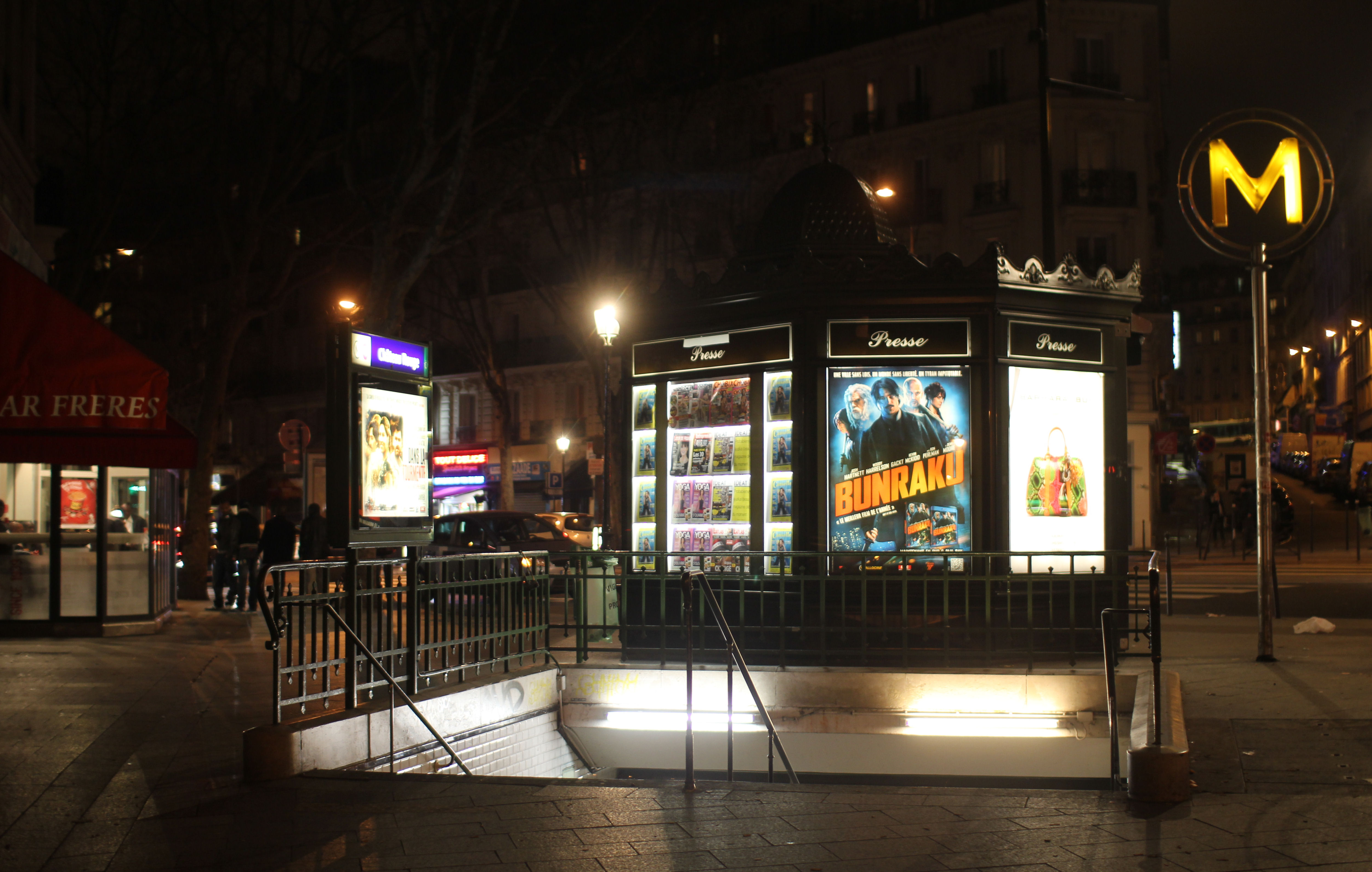 The entrance of metrostation Château Rouge